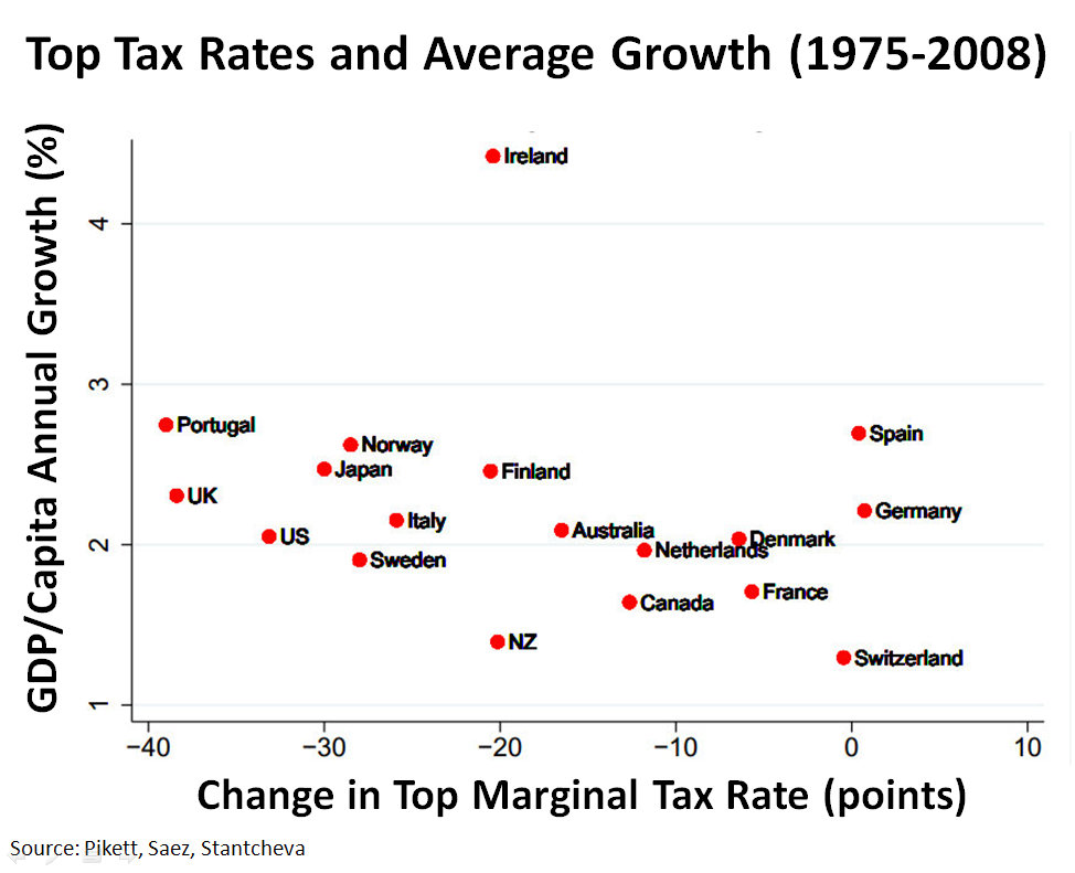 Changes in top tax rates versus average annual GDP per capita growth for OECD countries for 1975-2008. Scatter plot.